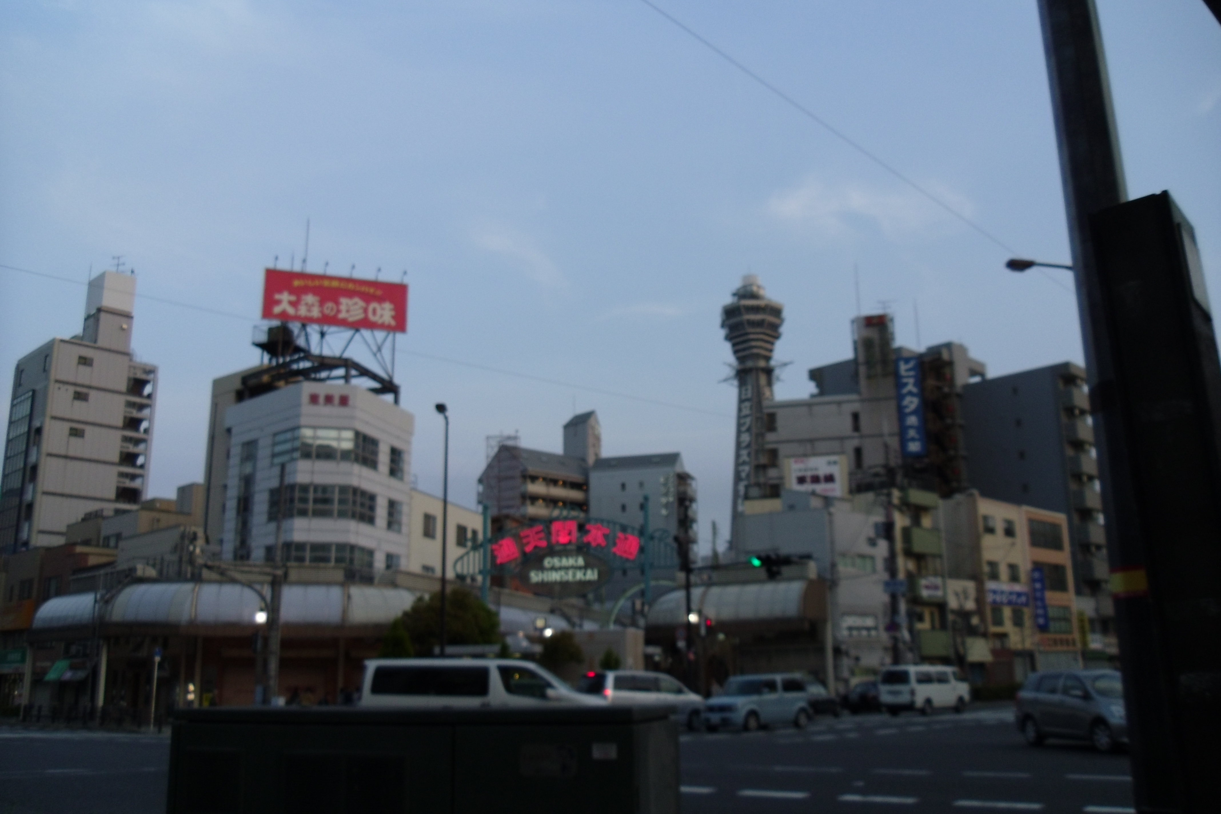 通天閣附近